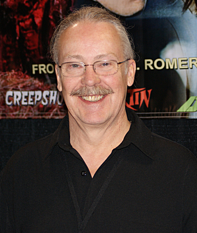 John Amplas attending the Calgary Comic & Entertainment Expo in BMO Centre, Calgary, Alberta, Canada.